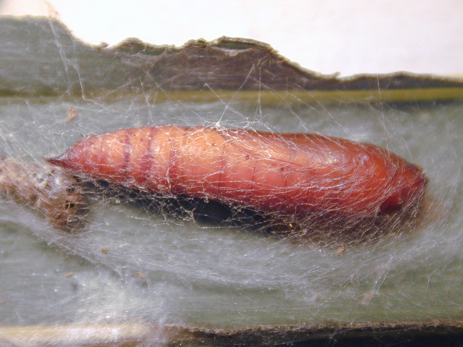 Cocos nucifera (Omioides blackburni 020511 1 pupa on leaf). Location: Maui, Launiupoko